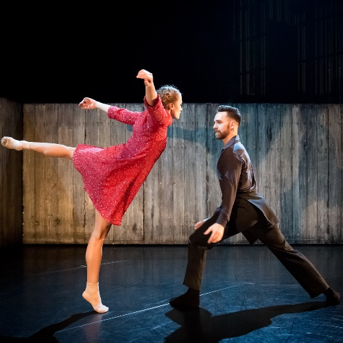 A photo taken during Johan Inger's Walking Mad as performed 2015 by NDCWales at Dance House Cardiff. Image by Rhys Cozens